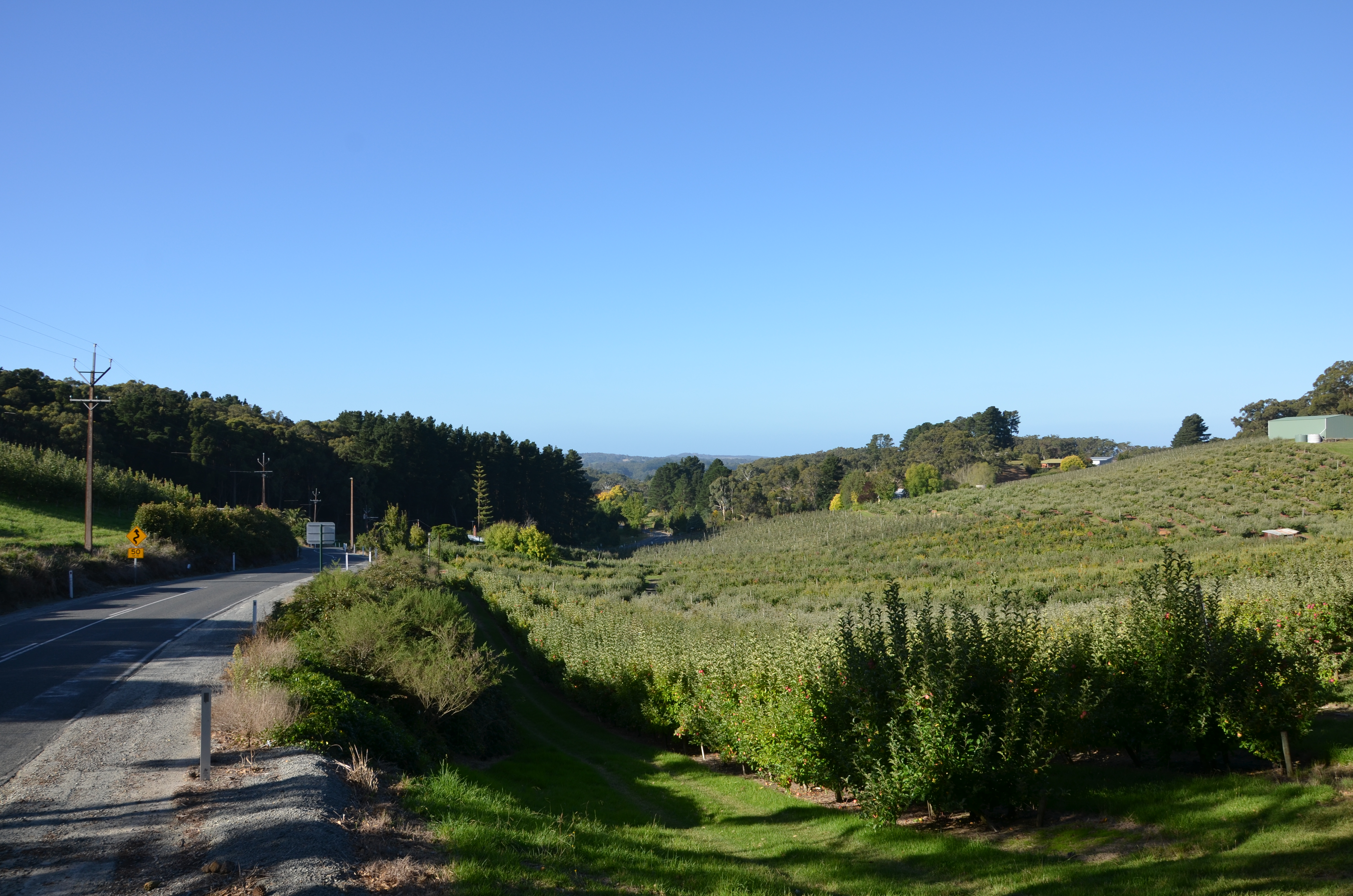 Looking towards Forest Range, South Australia, an apple and cherry growing district in the Adelaide Hills. Taken from near the intersection of Lobethal Road and Deviation Road, looking northeast.